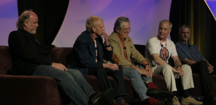 Phil Tippett, Robert Watts, Richard Edlund, Ben Burtt and Ken Ralston discuss their work on the original Star Wars. Photo by Scott Ruether. Read more at the Official Celebration IV blog.